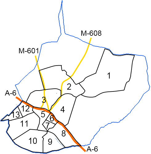 Collado Villalba Neighbourhoods by electoral division